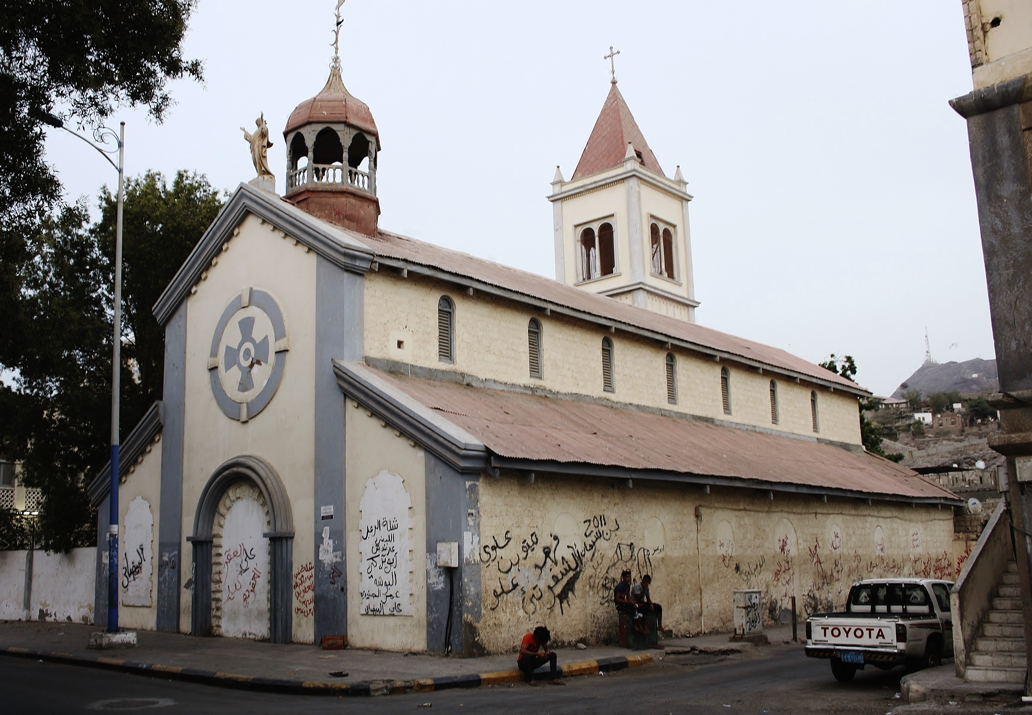 The church of St Francis of Assissi. When the British were in Aden, adjacent to the the church (where you see the trees) was St Anthony's Boys' School. The school has since been appropriated by the Aden government and a wall built between the church and the school.